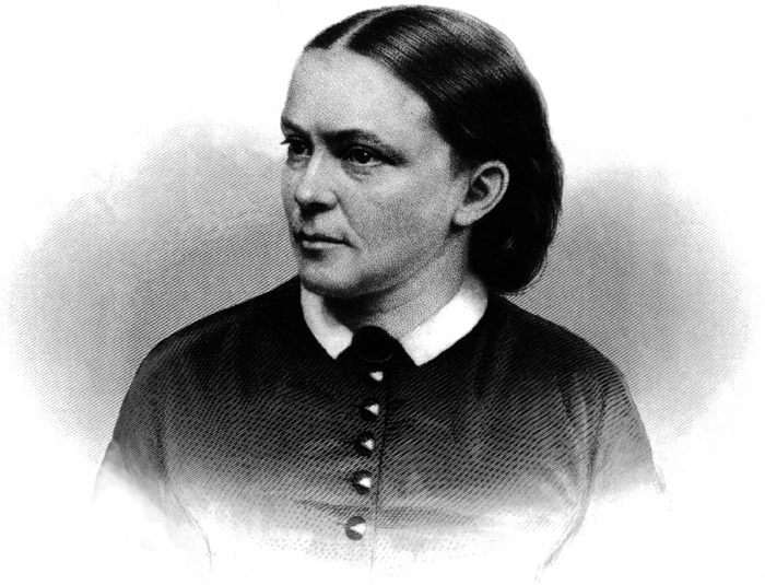 Cordelia A. P. HarveyEngraved by A.H. Ritchie.